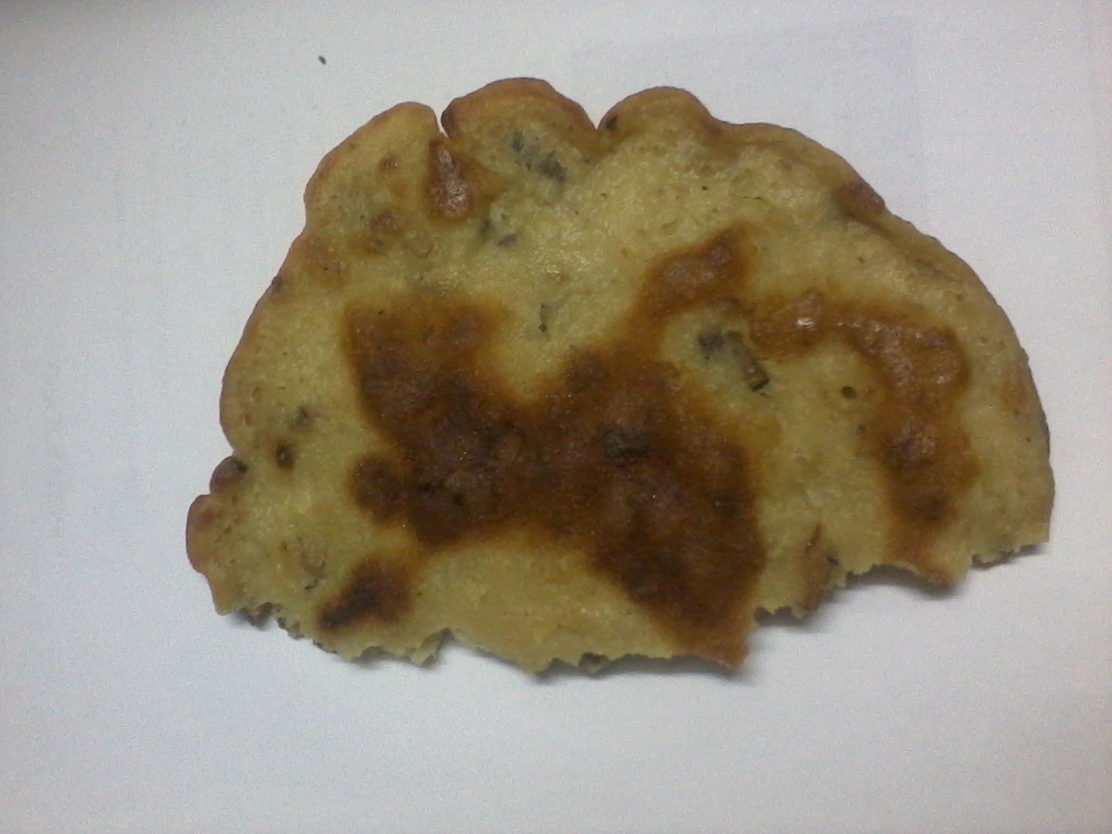 Kalthappam